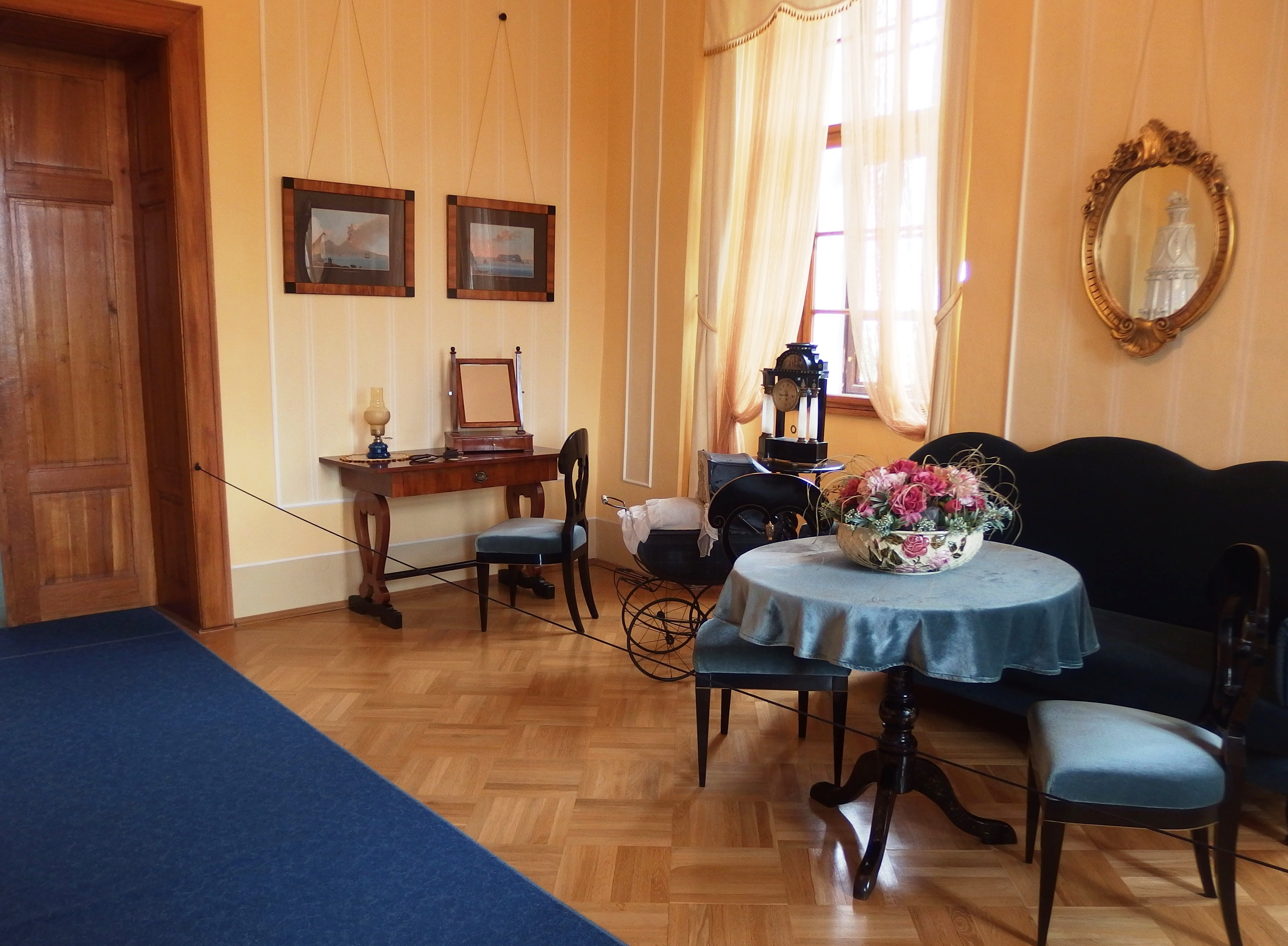 Kámen, Pelhřimov District, Czechia. Interior of the castle.